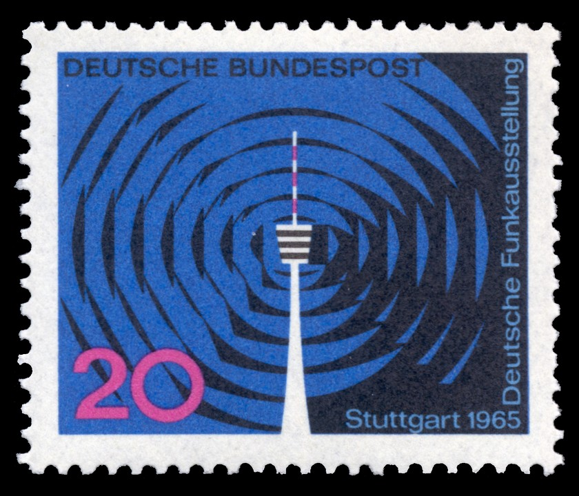 German telecommunication exhibition